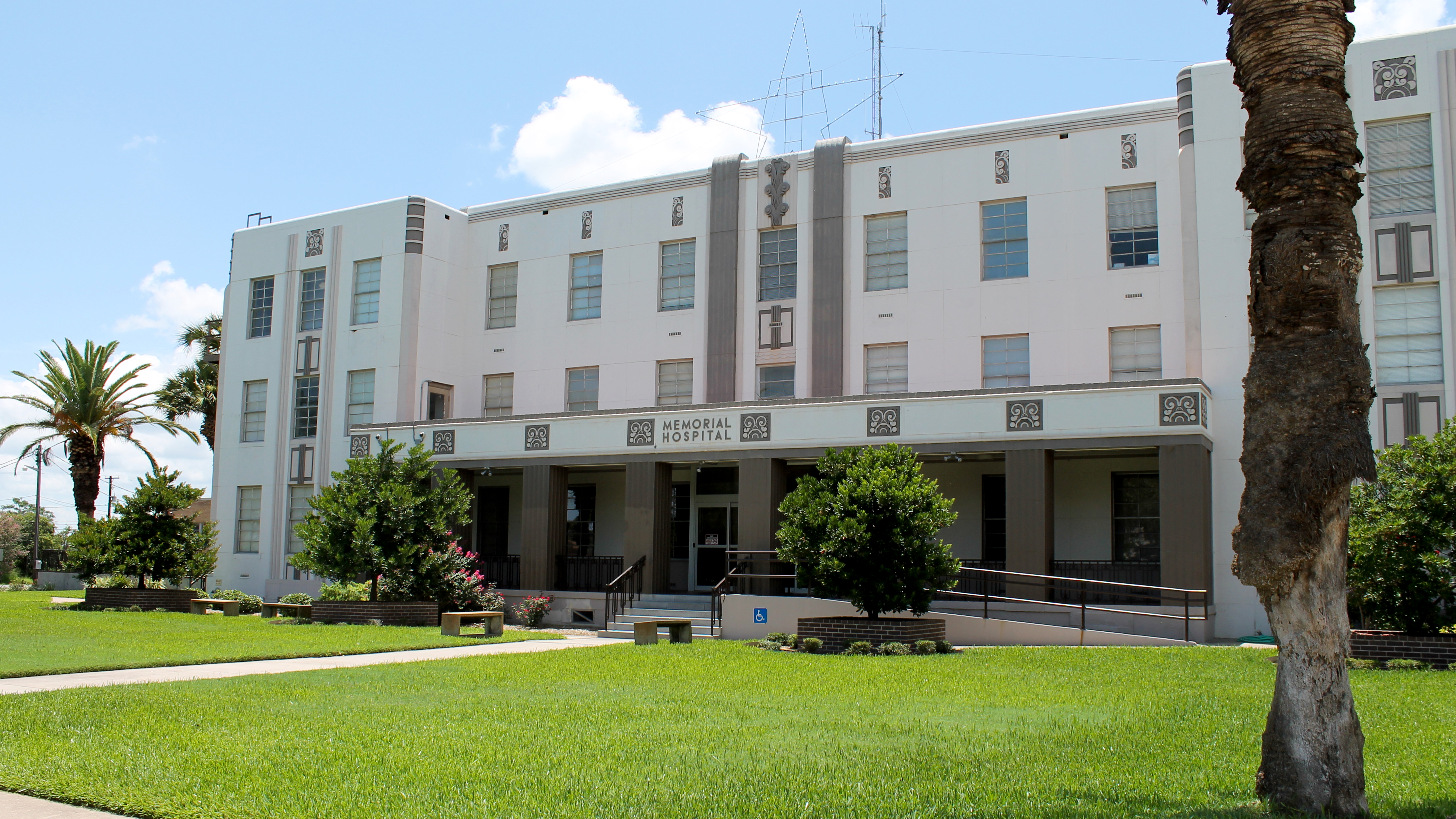 Refugio County Memorial Hospital in Refugio, Texas in July 2014.